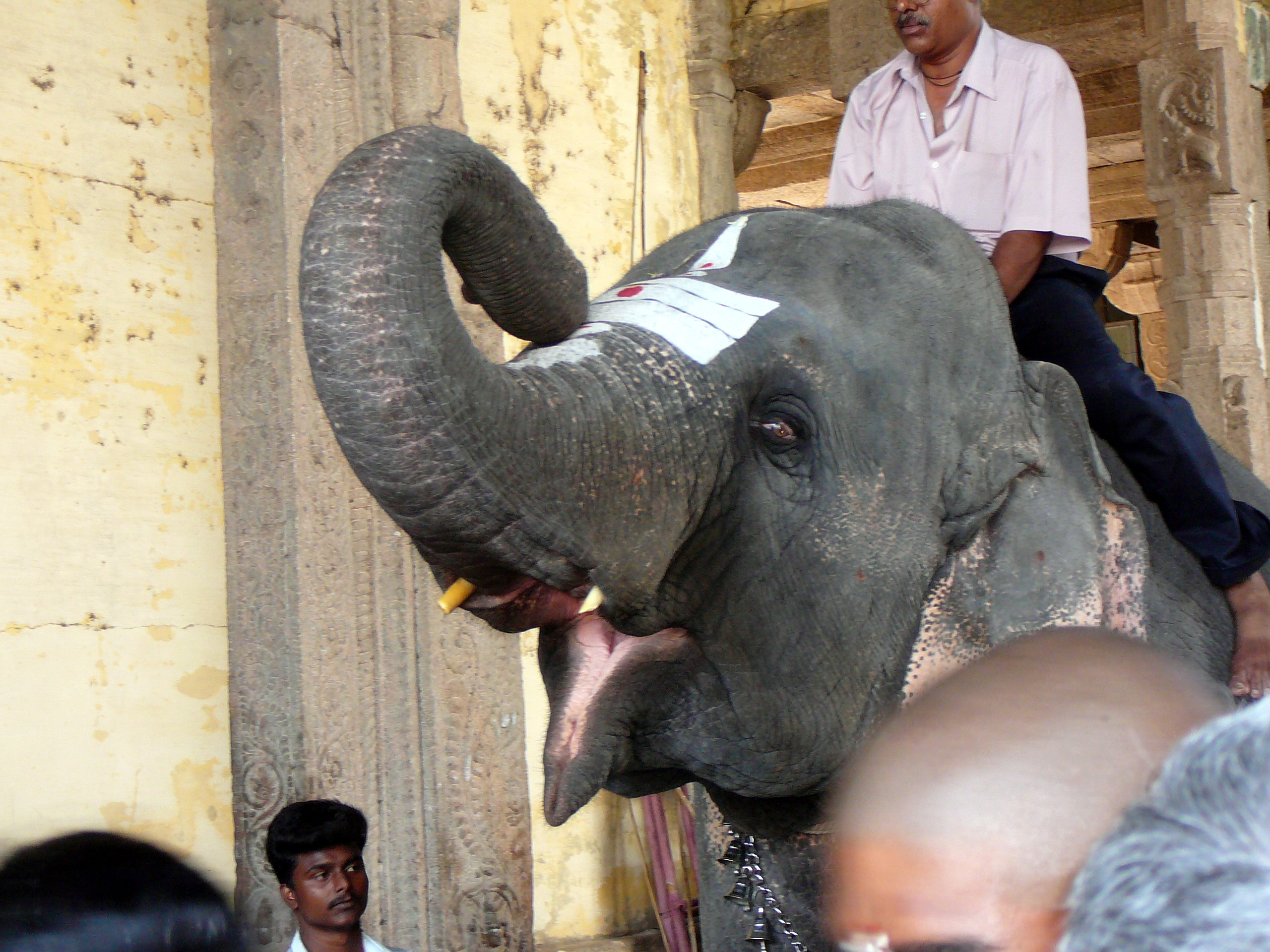 Elephant at Madurai Meenakshi temple curls its trunk.